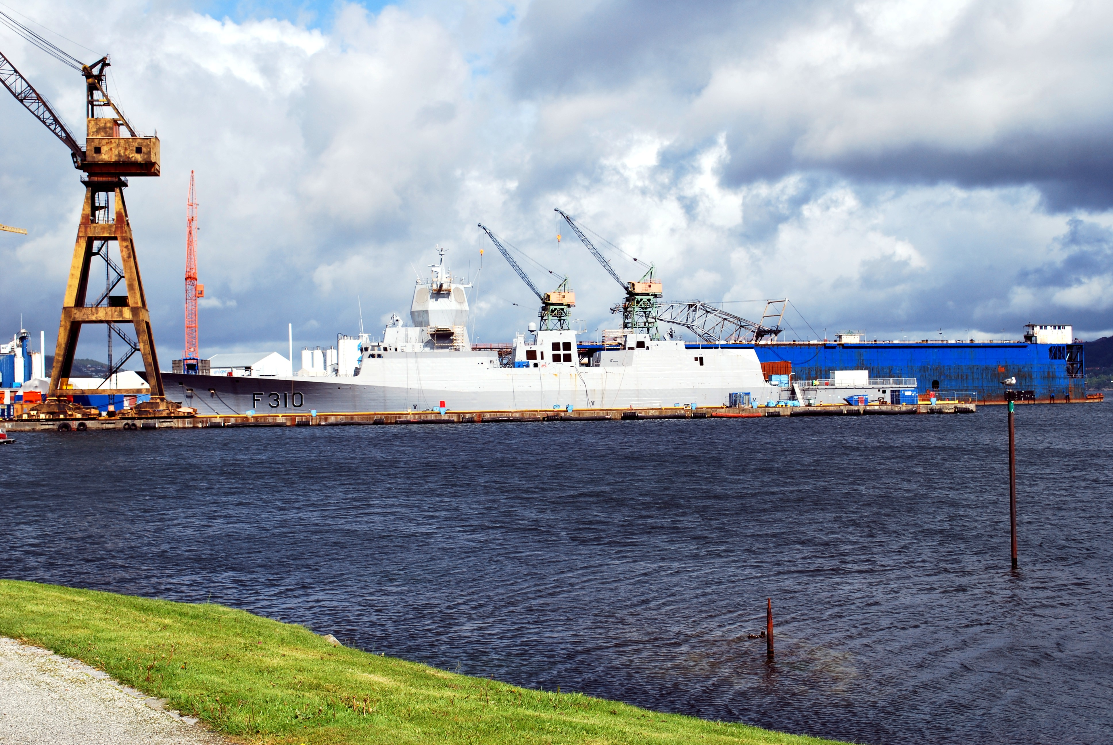 Shipyard Bergen Group Laksevåg, formerly Laksevåg Verft, at Lakesvåg in Bergen.